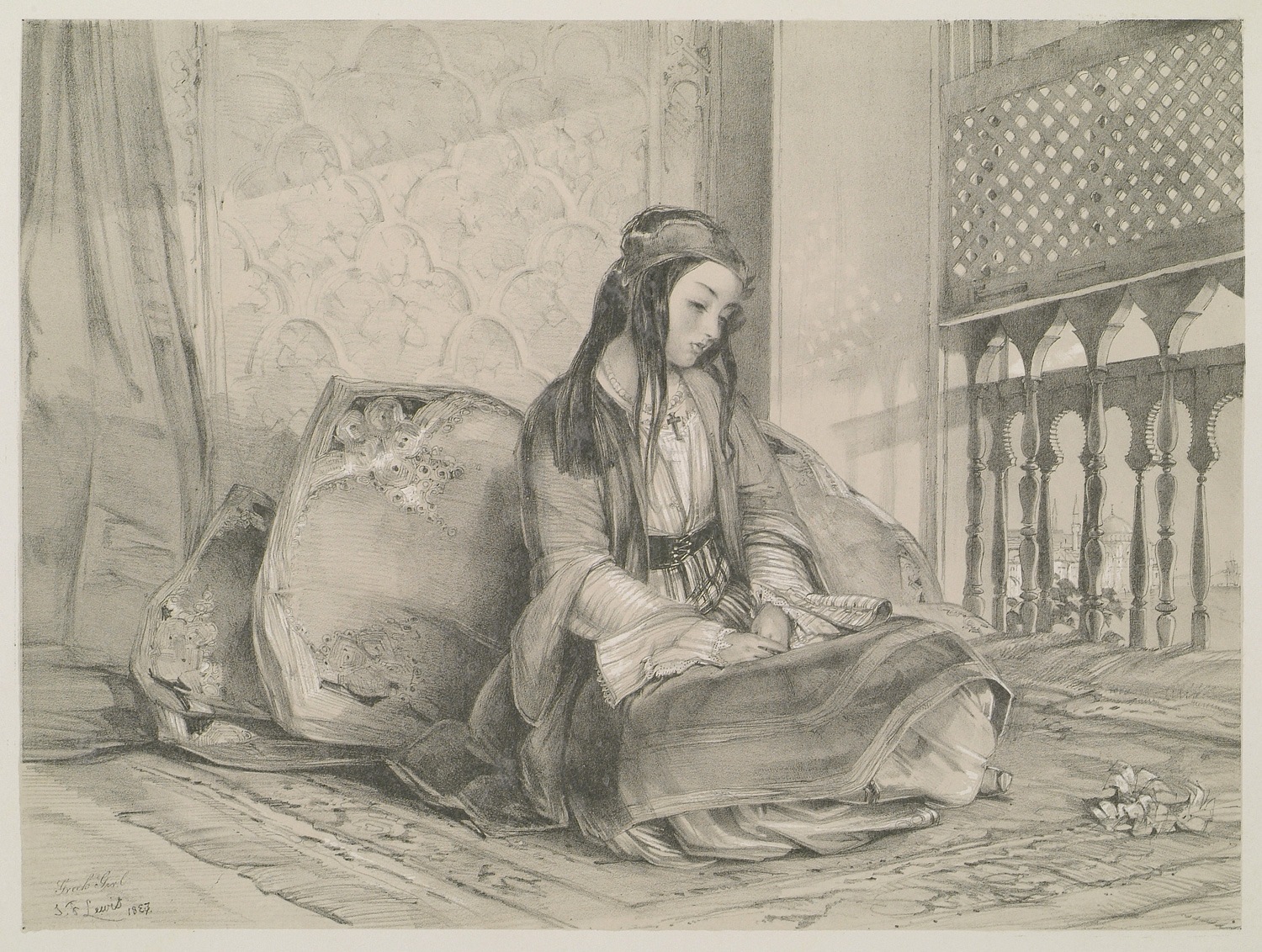 A captive Greek girl - Lewis John F - 1838